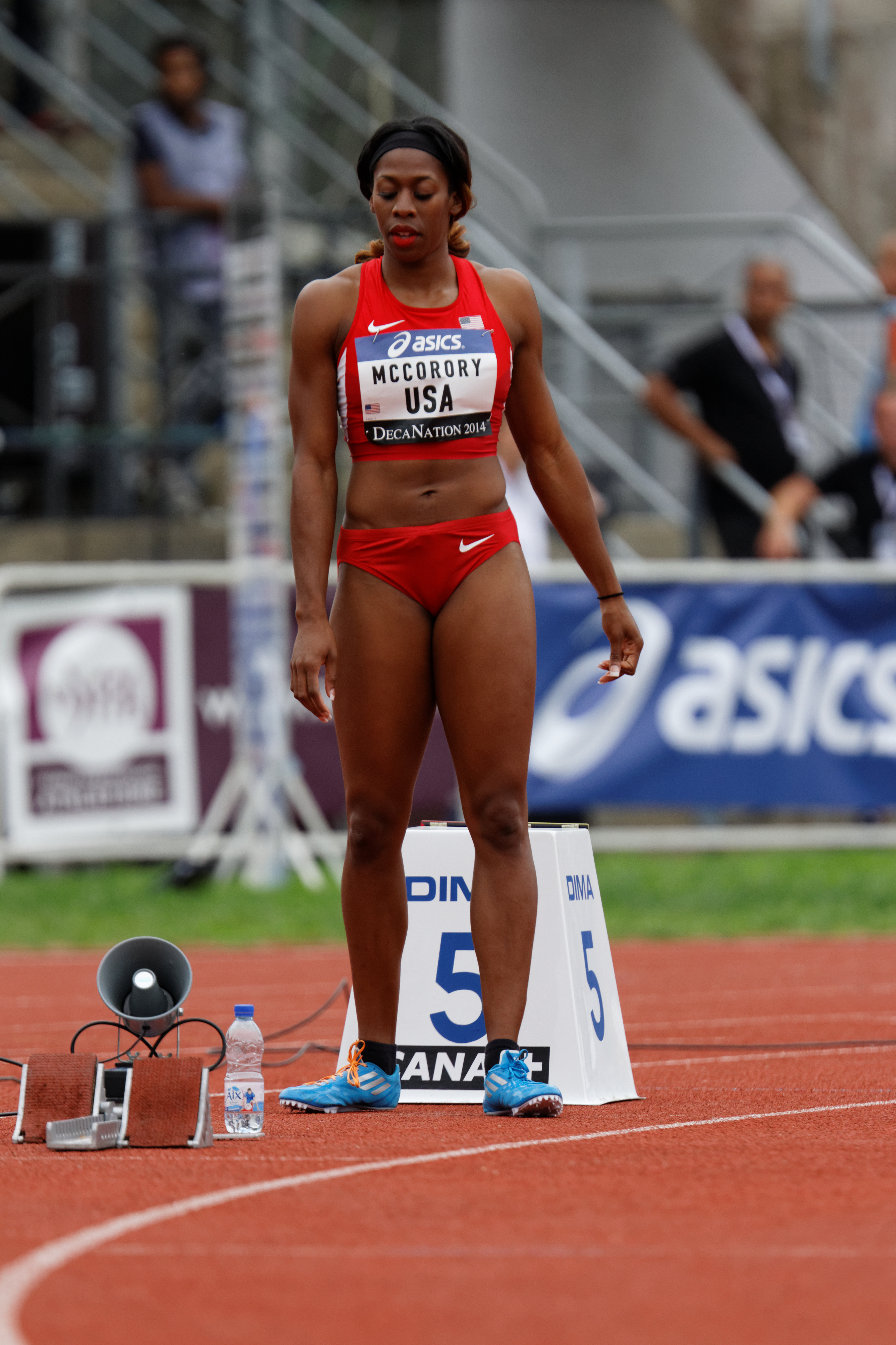 DécaNation 2014